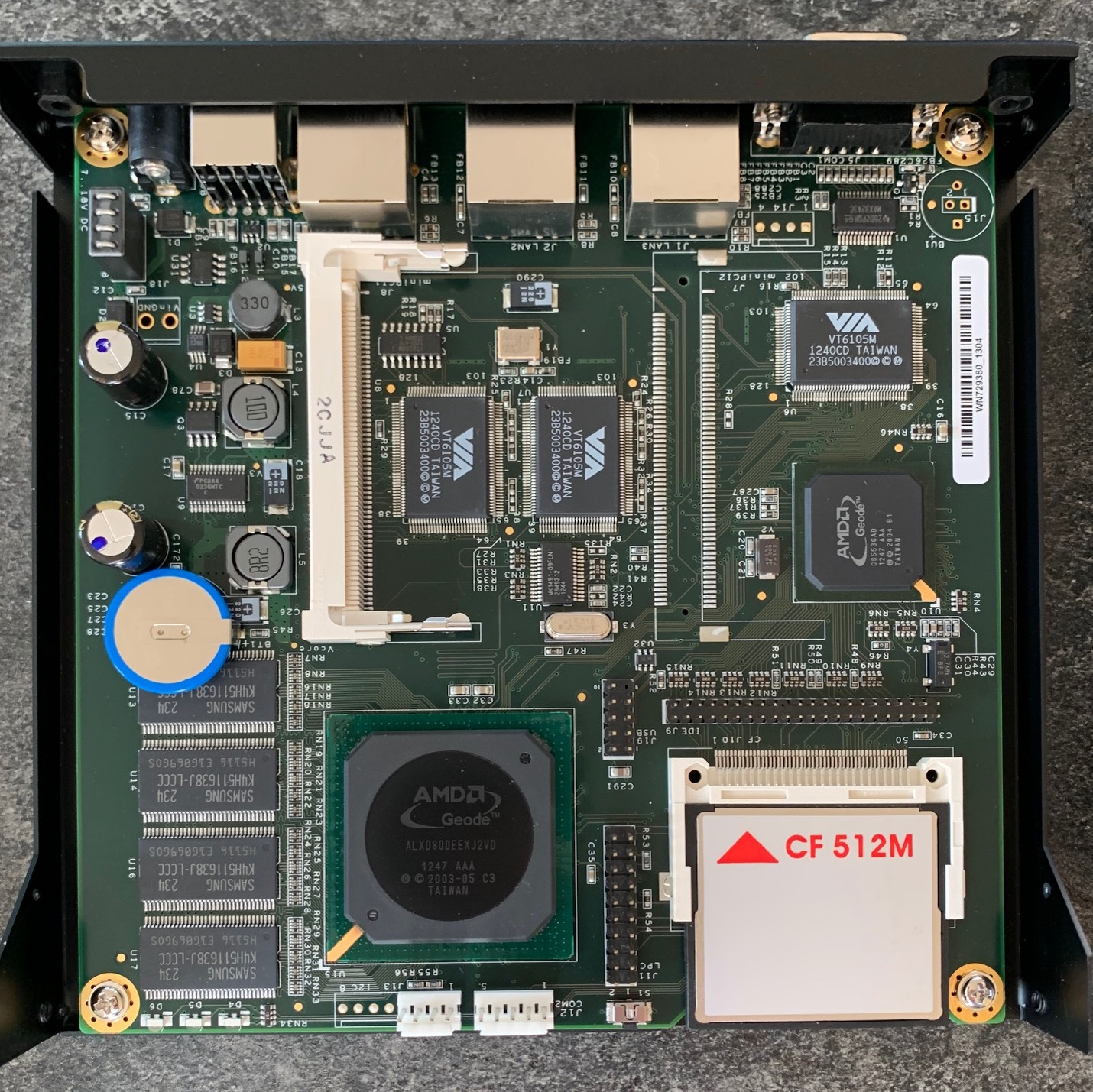 m0n0wall small SML-20019-D by Deciso B.V. (replaced by newer hardware, see e.g. Deciso)